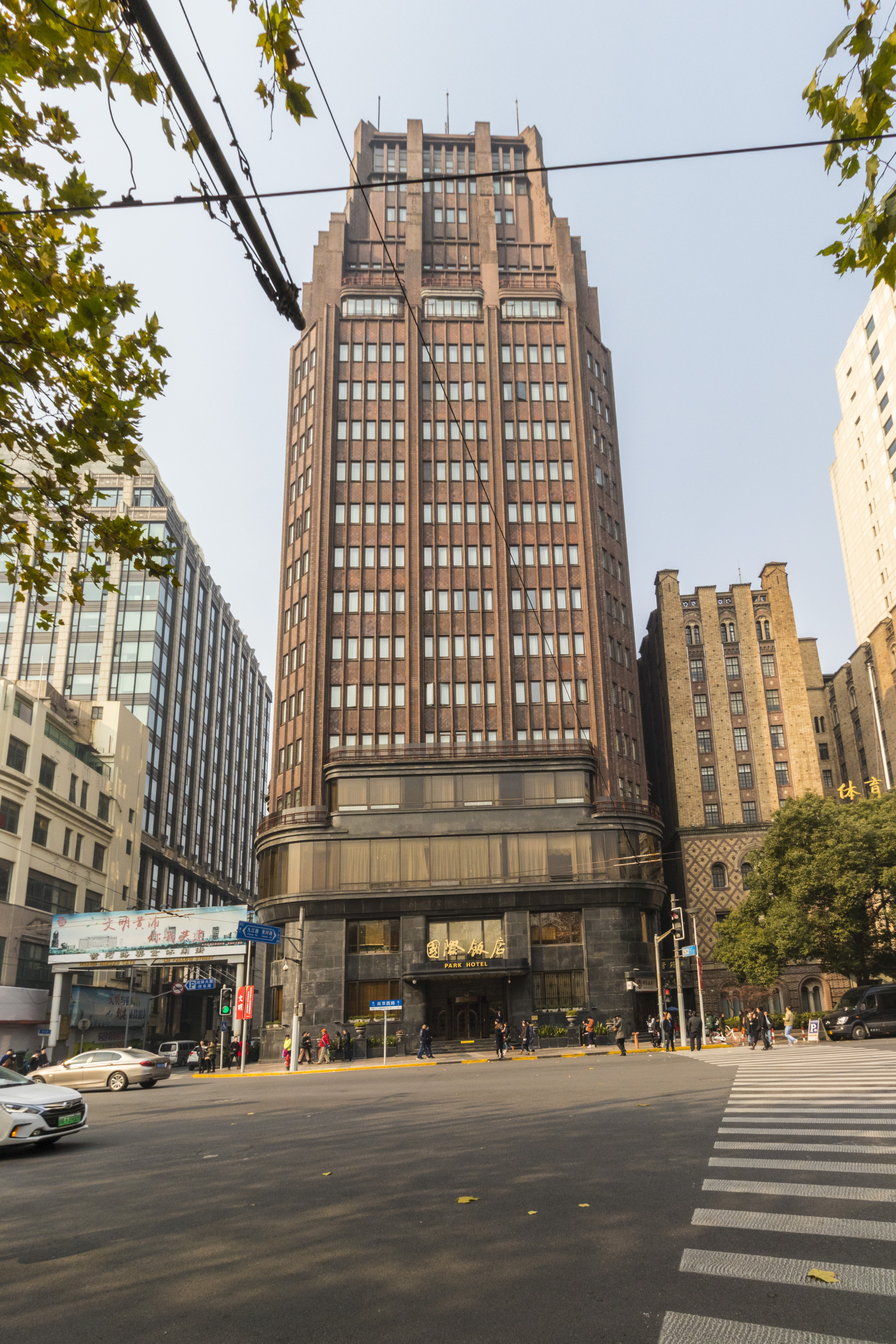 Park Hotel, 170 West Nanjing Road, Shanghai